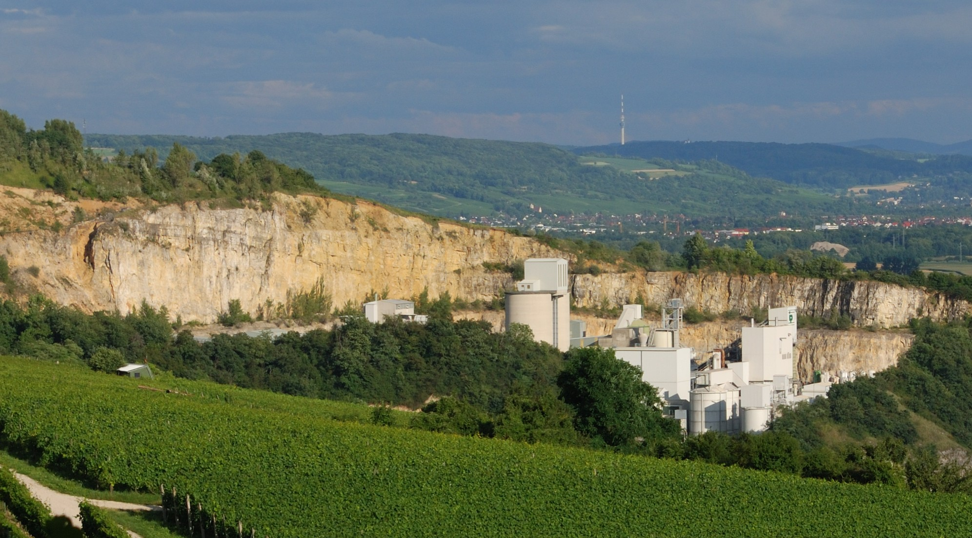 Istein: lime works